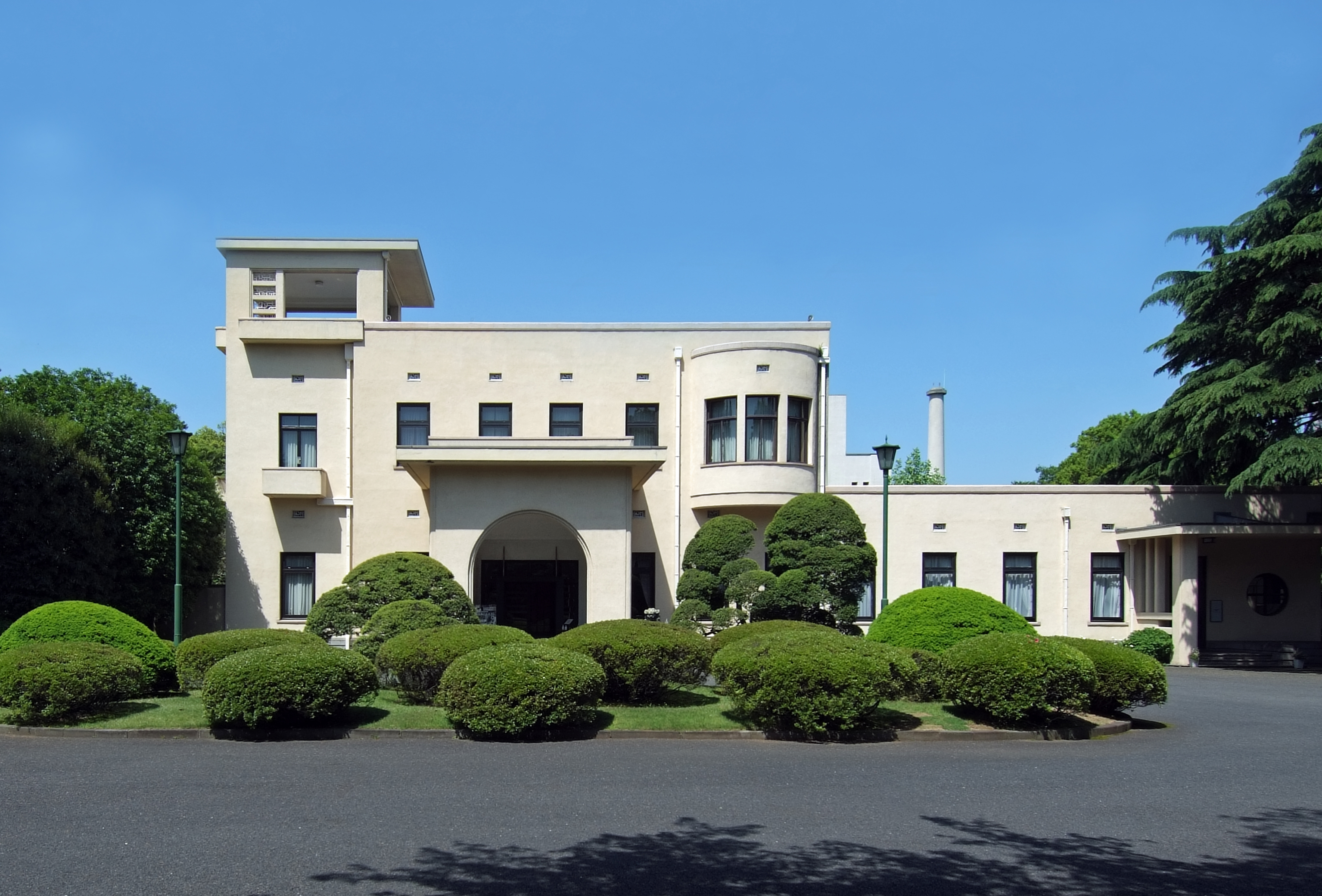 Tokyo Metropolitan Teien Art Museum.